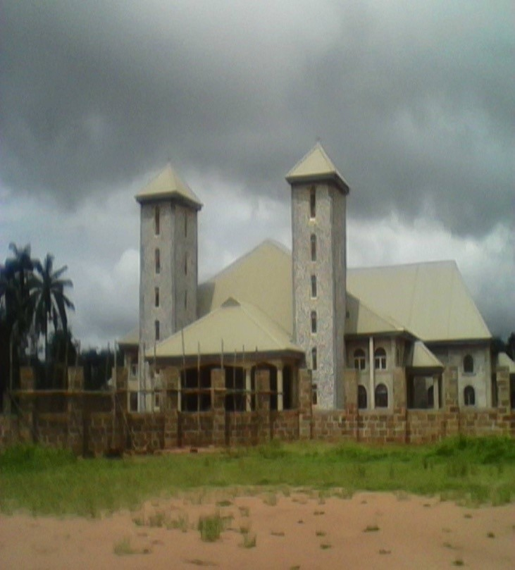 St Anthony's Catholic Parish, Umuezukwe, Awo-omamma undergoing construction.